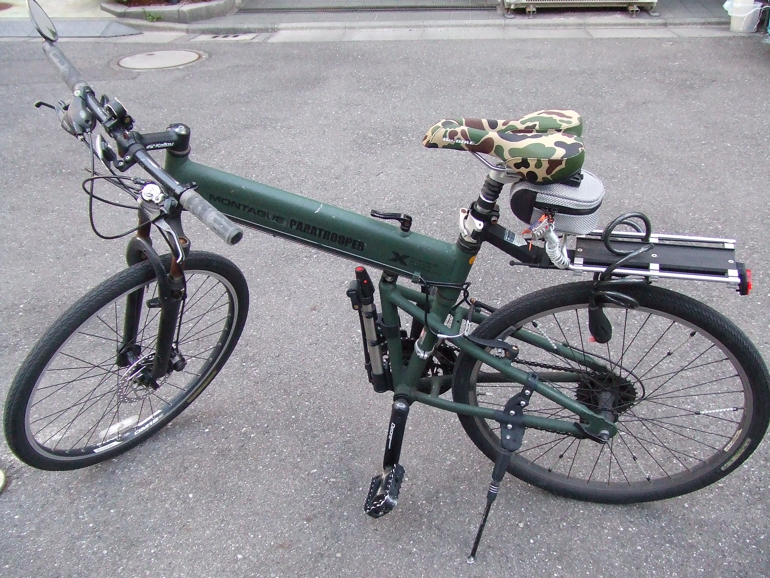 A photo of Paratrooper Bicycle by Montague Corp. (USA)